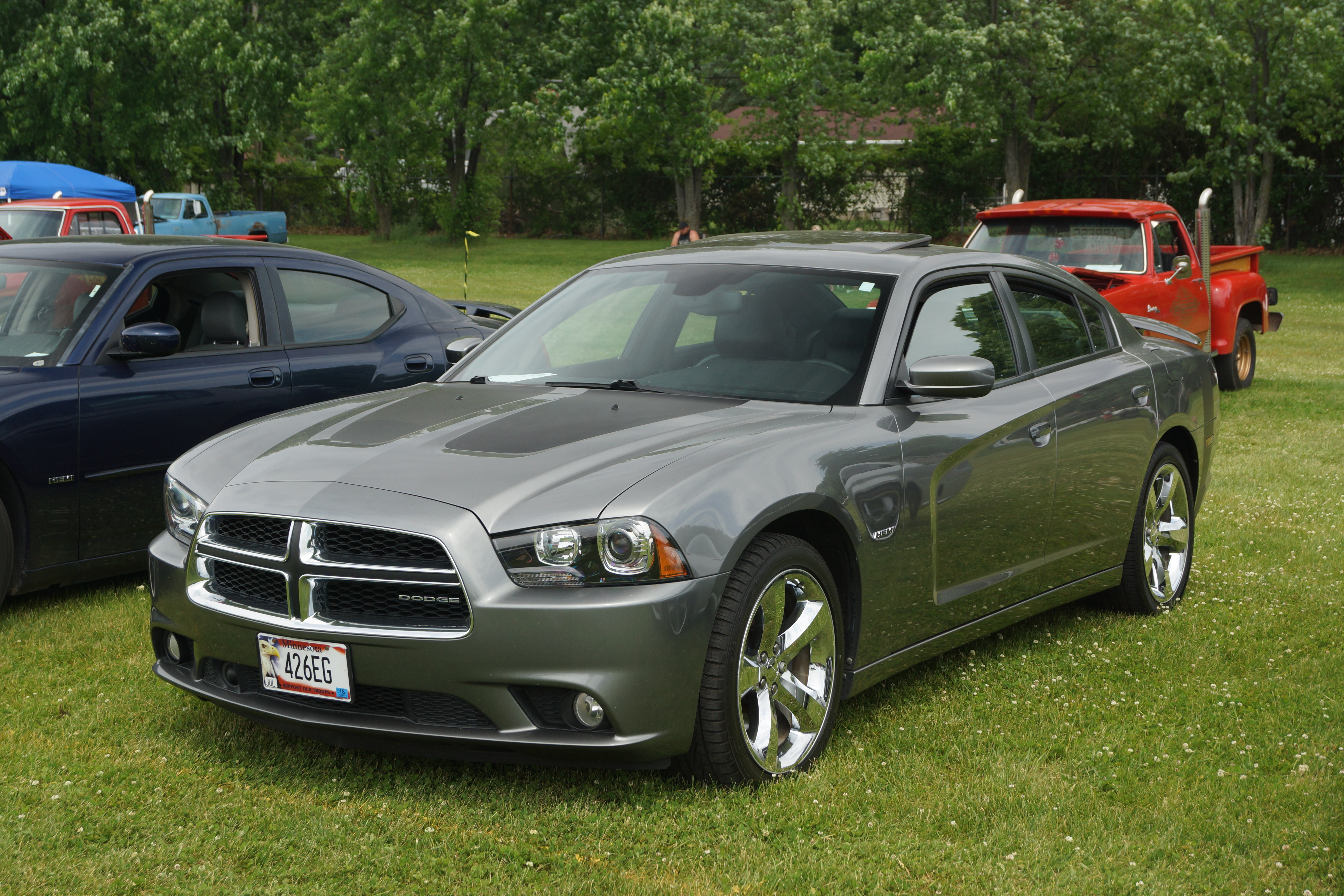 Midwest Mopars in the Park National Car Show & Swap Meet Dakota County Fairgrounds Farmington, Minntesota June 2-4, 2017